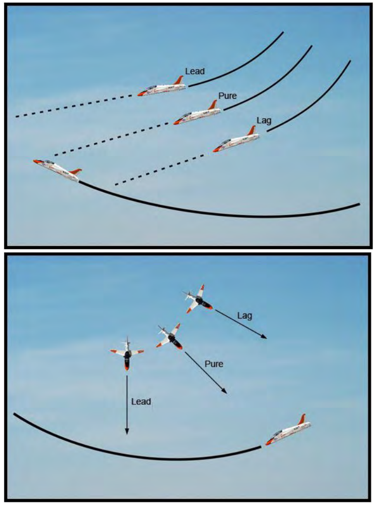 Pursuit curves are determined by the angle off tail (AOT). Image from United States Navy - Naval Air Training Command (NAS Corpus Christi, Texas) Flight training instruction manual. (Rev. 08-06 CNATRAP-821) 2006